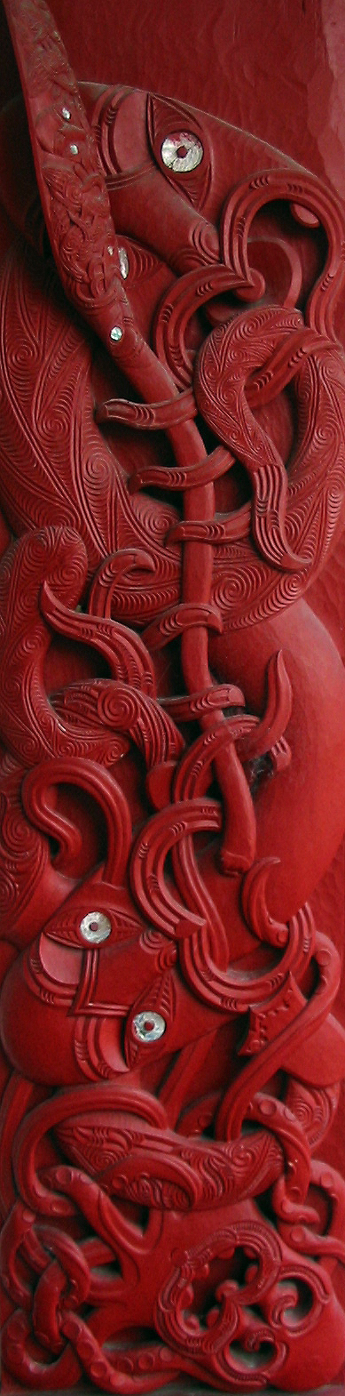 Maori carved house post from Tanenuiarangi meeting house, Waipapa marae, University of Auckland. Late 20th century (the marae was built between 1985 and 1988). This house post depicts the navigator Kupe, holding a paddle to mark his prowess as a seafarer, with two sea creatures, one an octopus (wheke), at his feet.